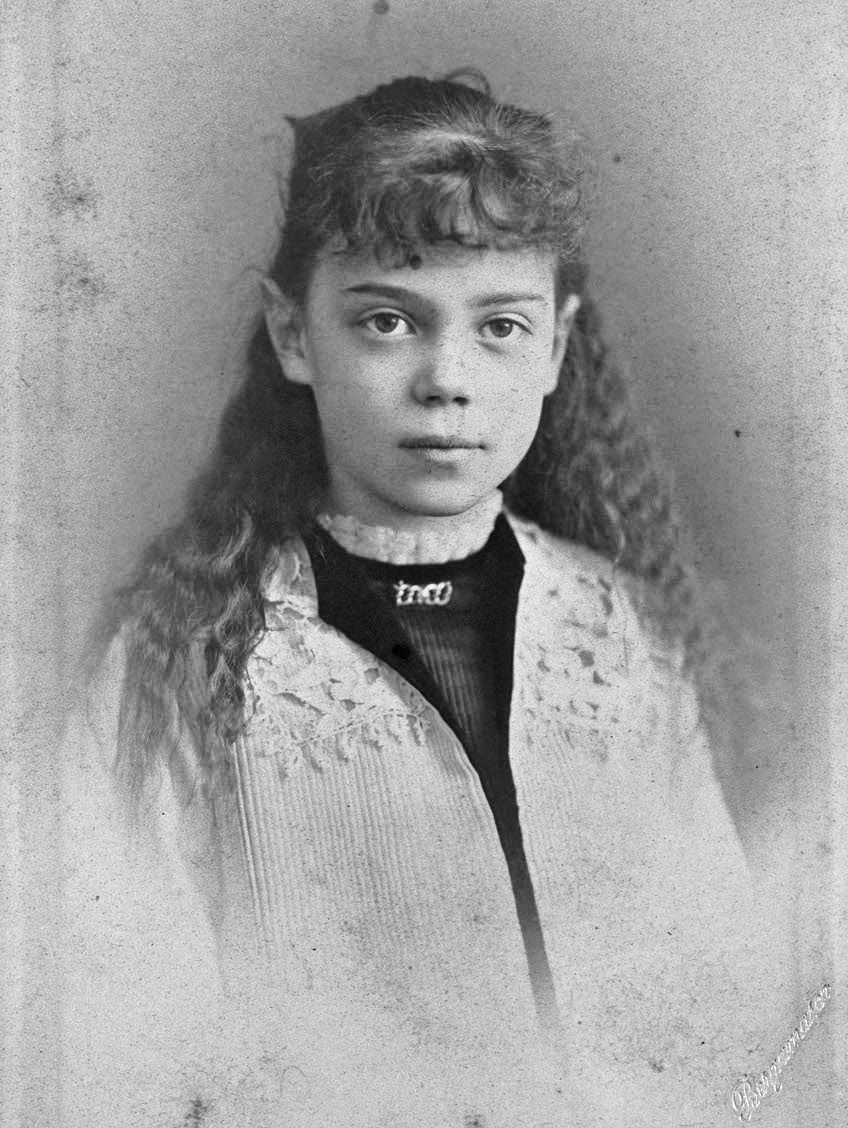 Grand Duchess Xenia Alexandrovna of Russia. Half length potrait, with long hair, wearing embroidered cardigan.